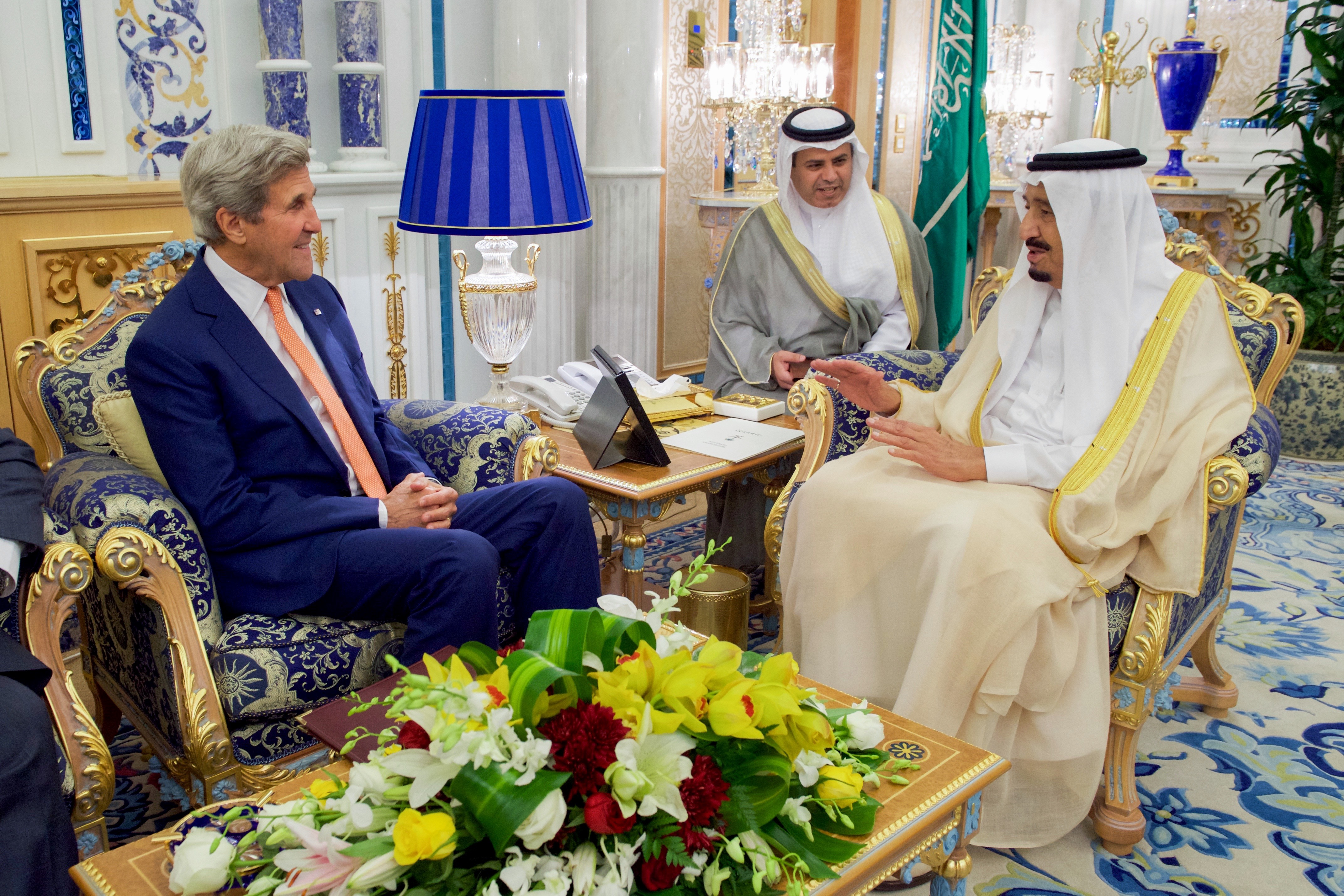 King Salman of Saudi Arabia speaks with U.S. Secretary of State John Kerry on August 25, 2016, after he arrived at the Royal Court in Jeddah, Saudi Arabia, for a bilateral meeting preceding discussions with regional ministers focused on Yemen and other Persian Gulf issues. [State Department photo/ Public Domain]